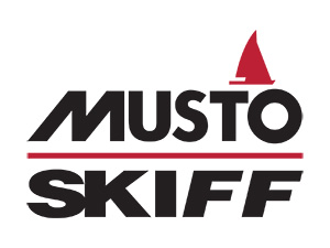 Musto Skiff logo